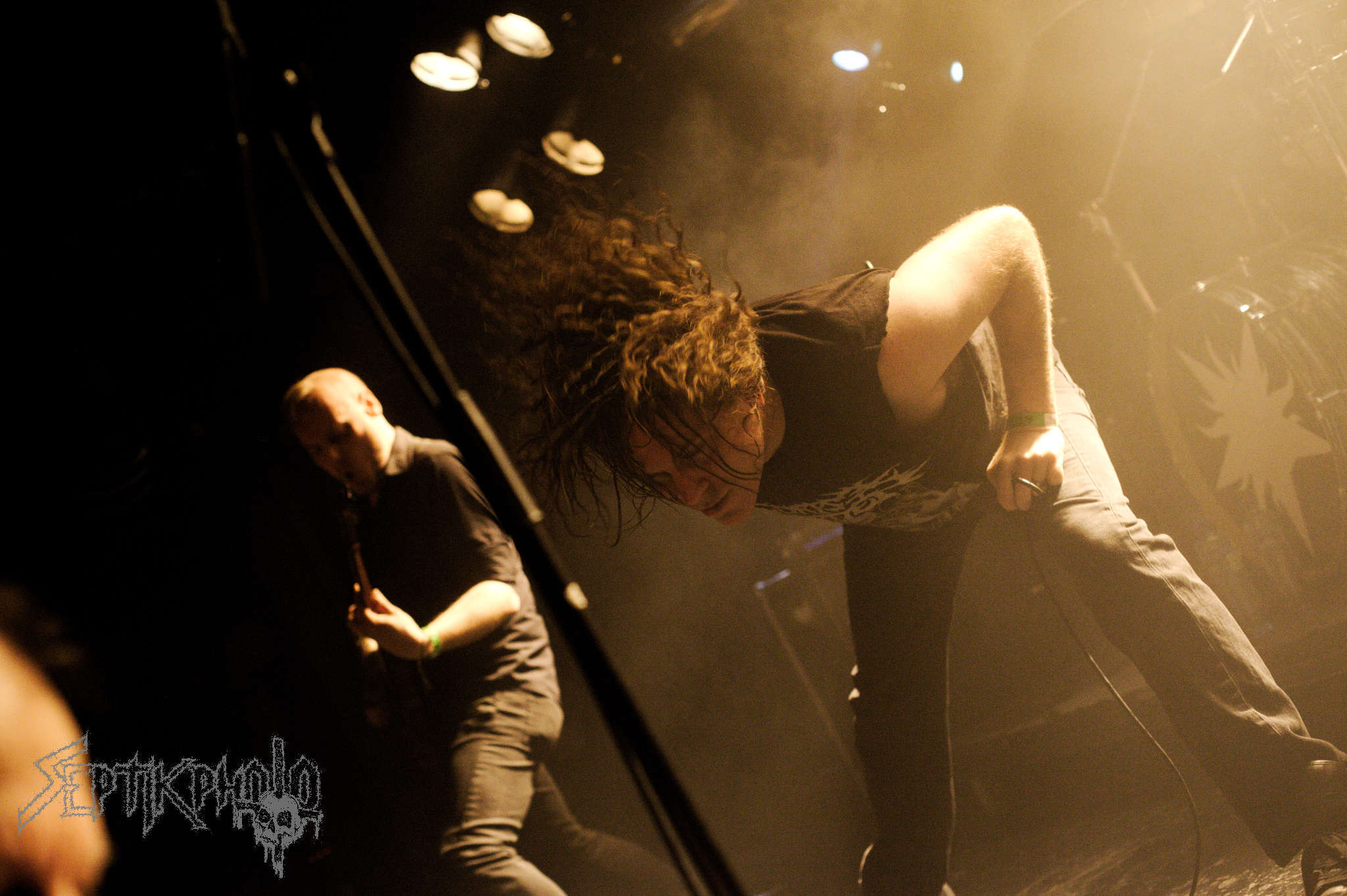 Cattle Decapitation at Inferno 2016, in Oslo (Norway)